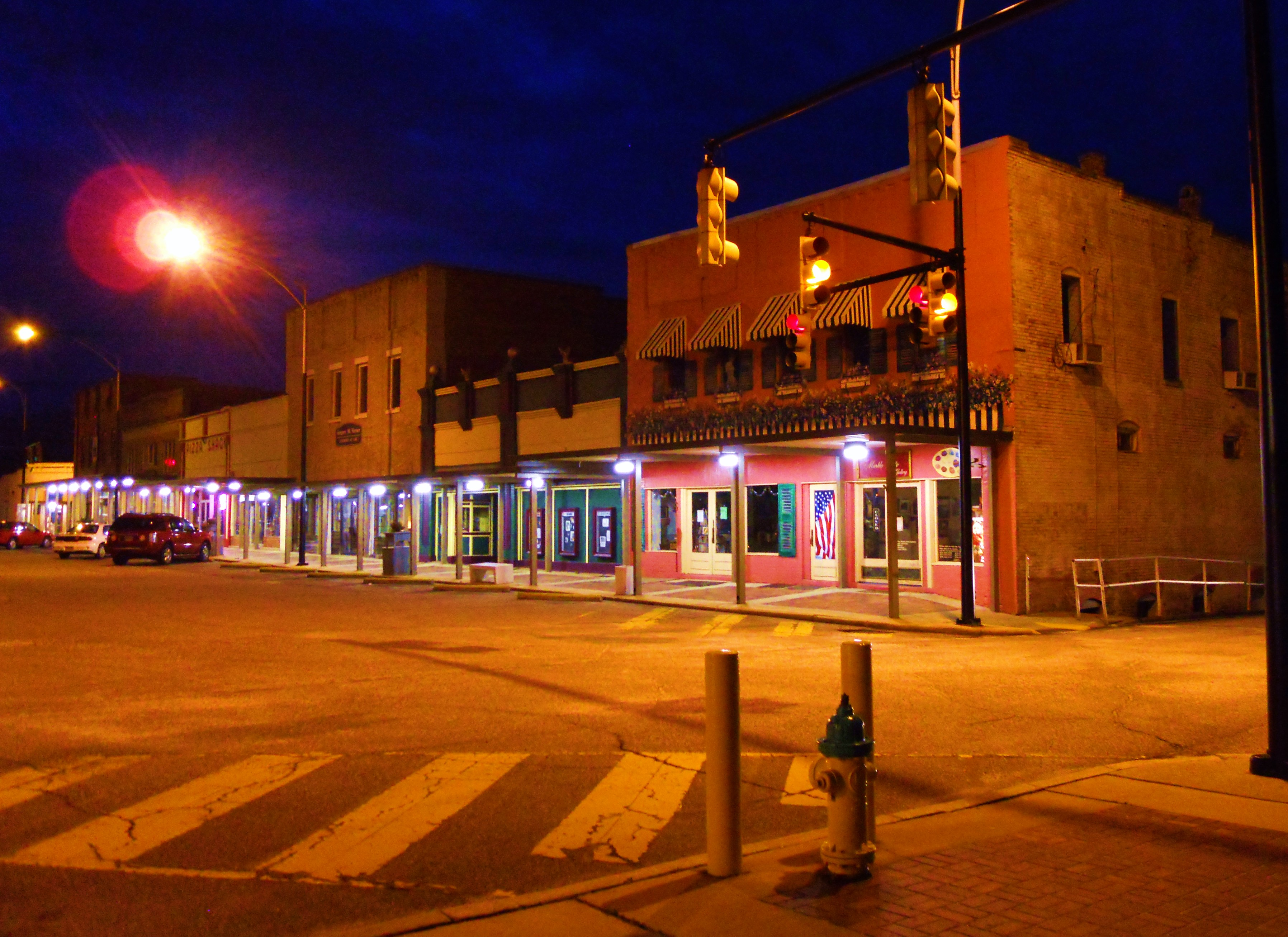 This is a photo of the Courthouse Square in Ashland, Alabama.